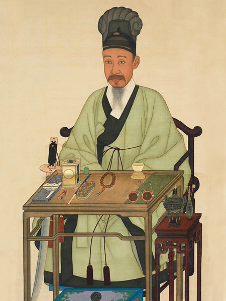 Portrait of Heungseon Daewongun, Yi Haeung wearing Waryonggwan and Hakchangui